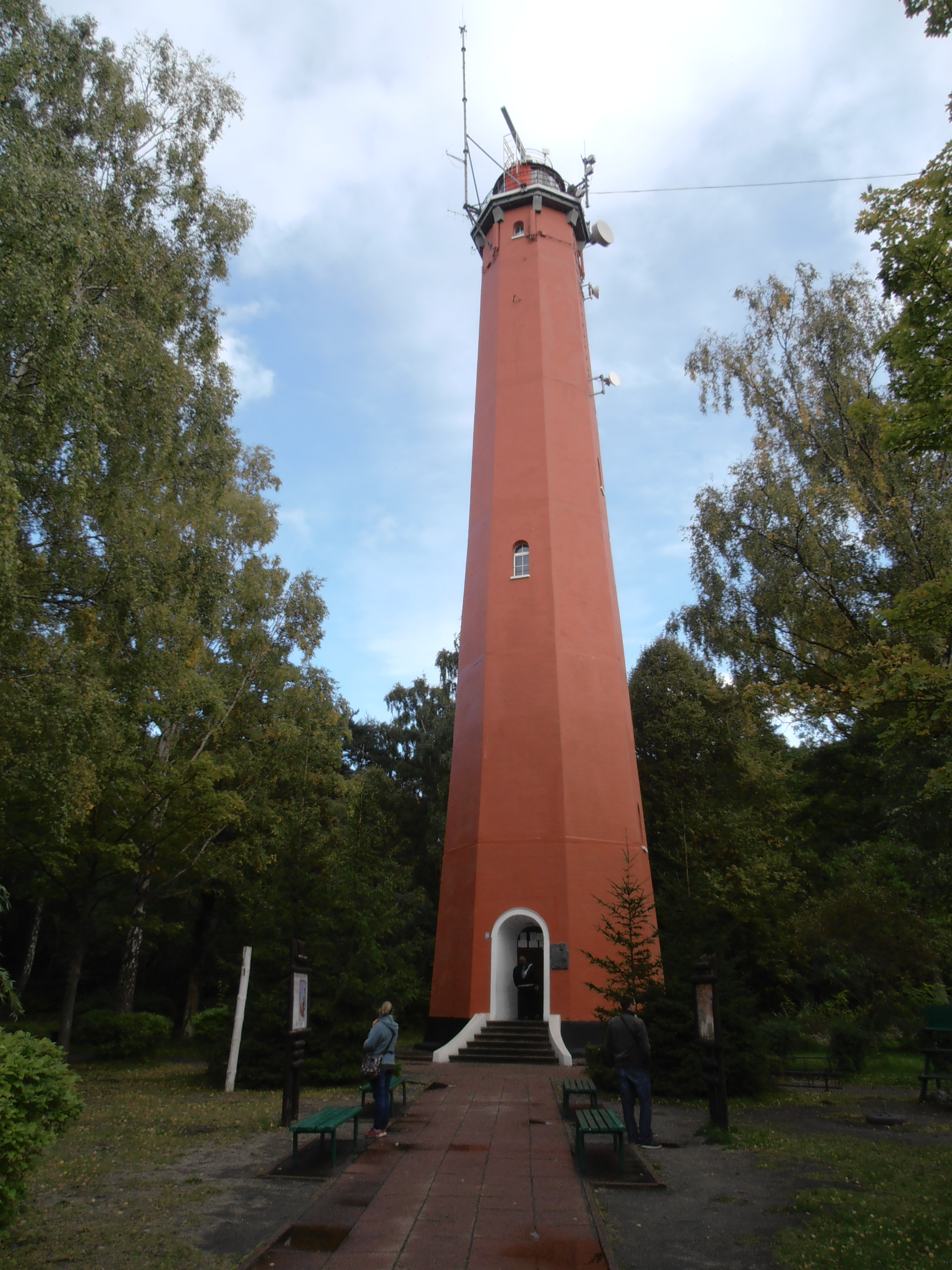 Hel Lighthouse